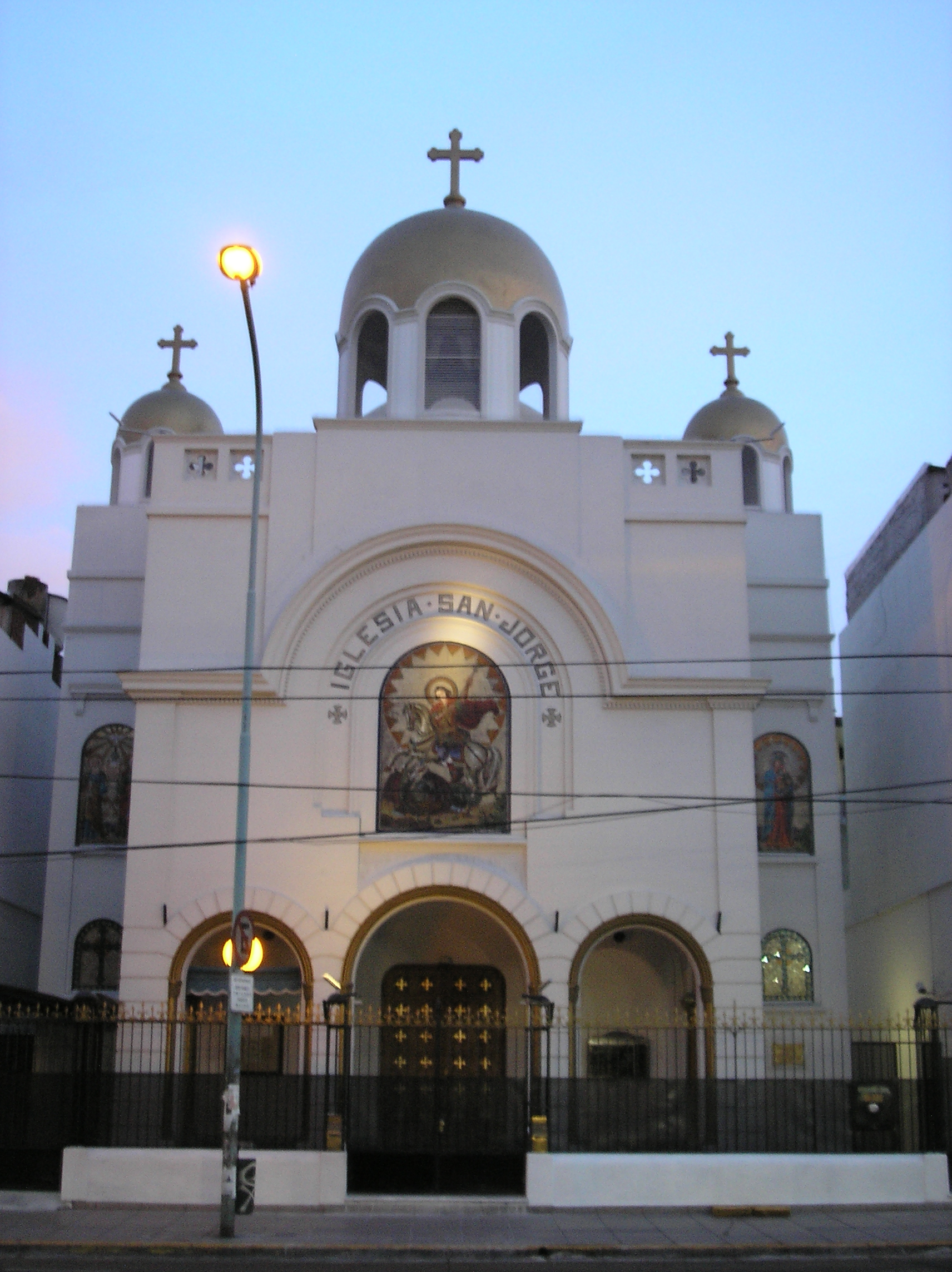 Saint George Cathedral, Antiochian Orthodox Christian Archidiocese of Argentina, Buenos Aires, Argentina